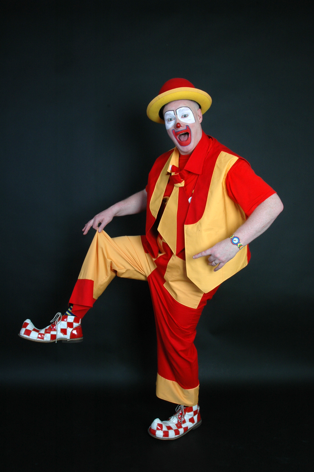 Smilie The Clown